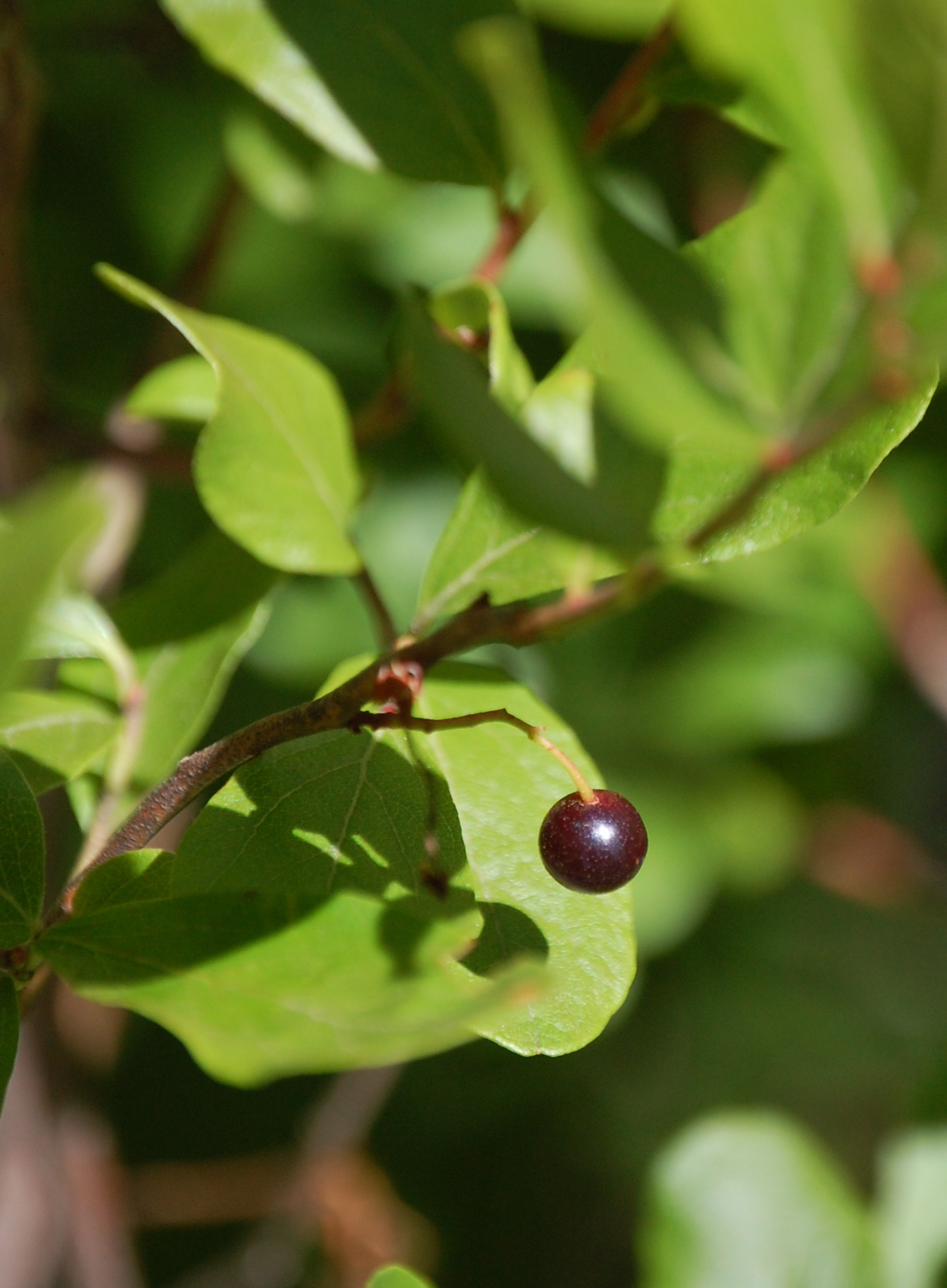 Black huckleberry (Gaylussacia baccata) in the Wild Gardens exhibit by the Nature Center in Acadia National Park, Maine, showing the berries.